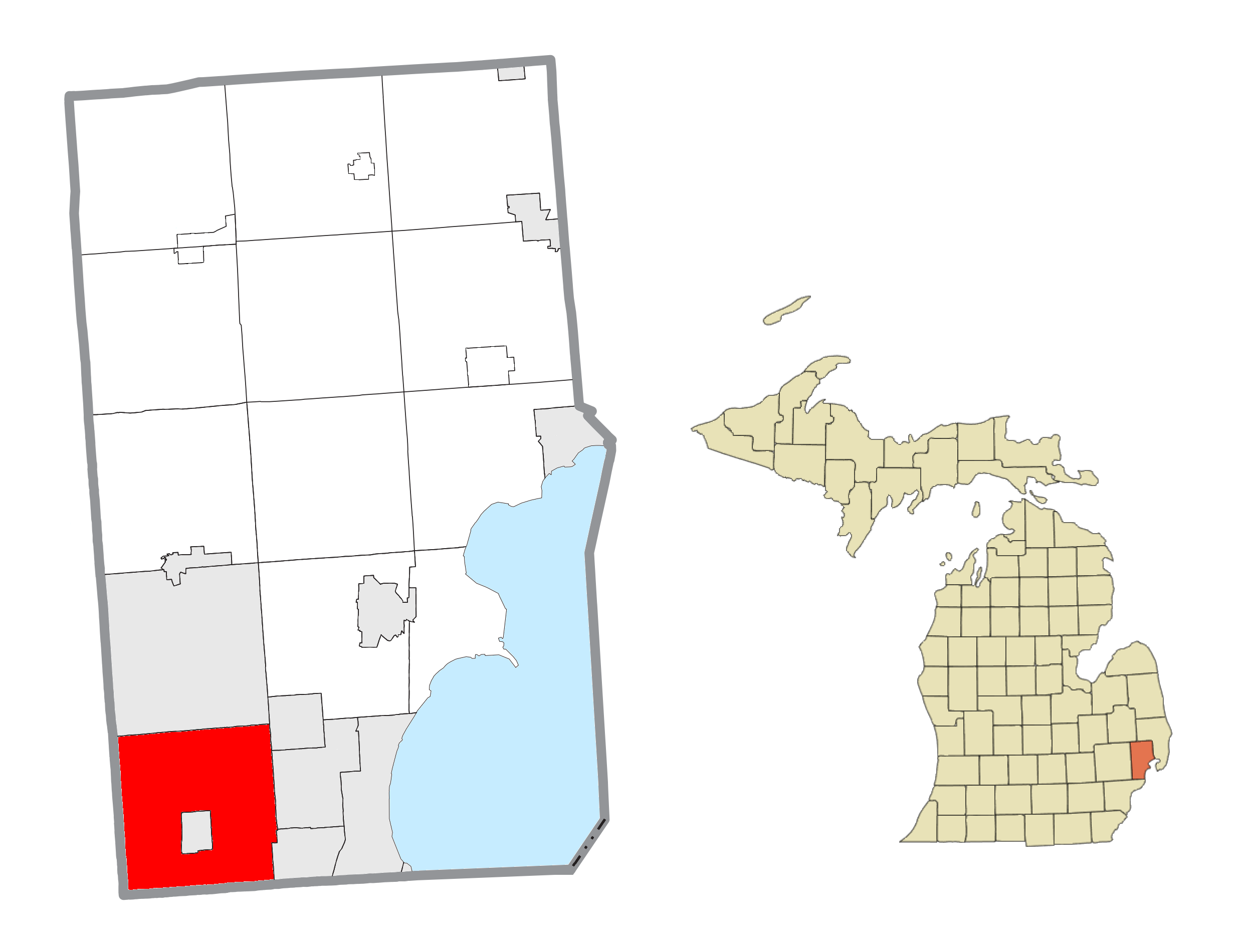 Warren, MI